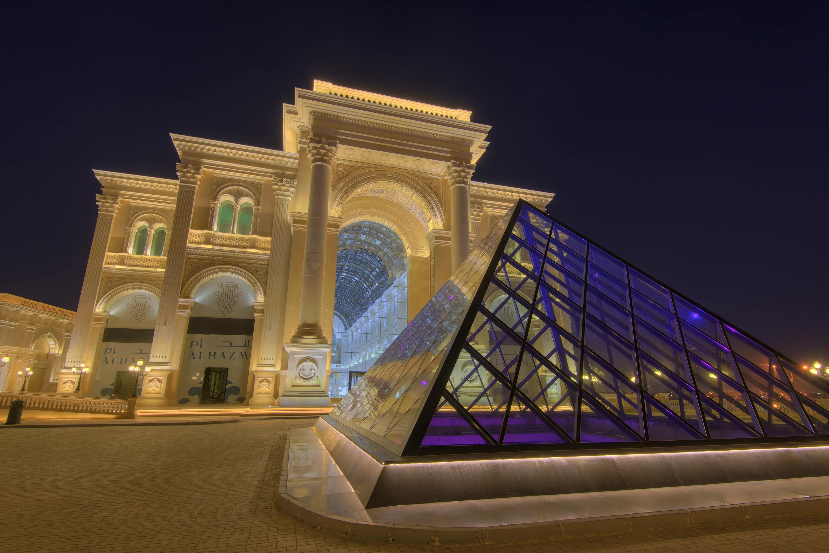 Pyramidal structure in front of Al Hazm Mall in Al Markhiya neighborhood of Doha.